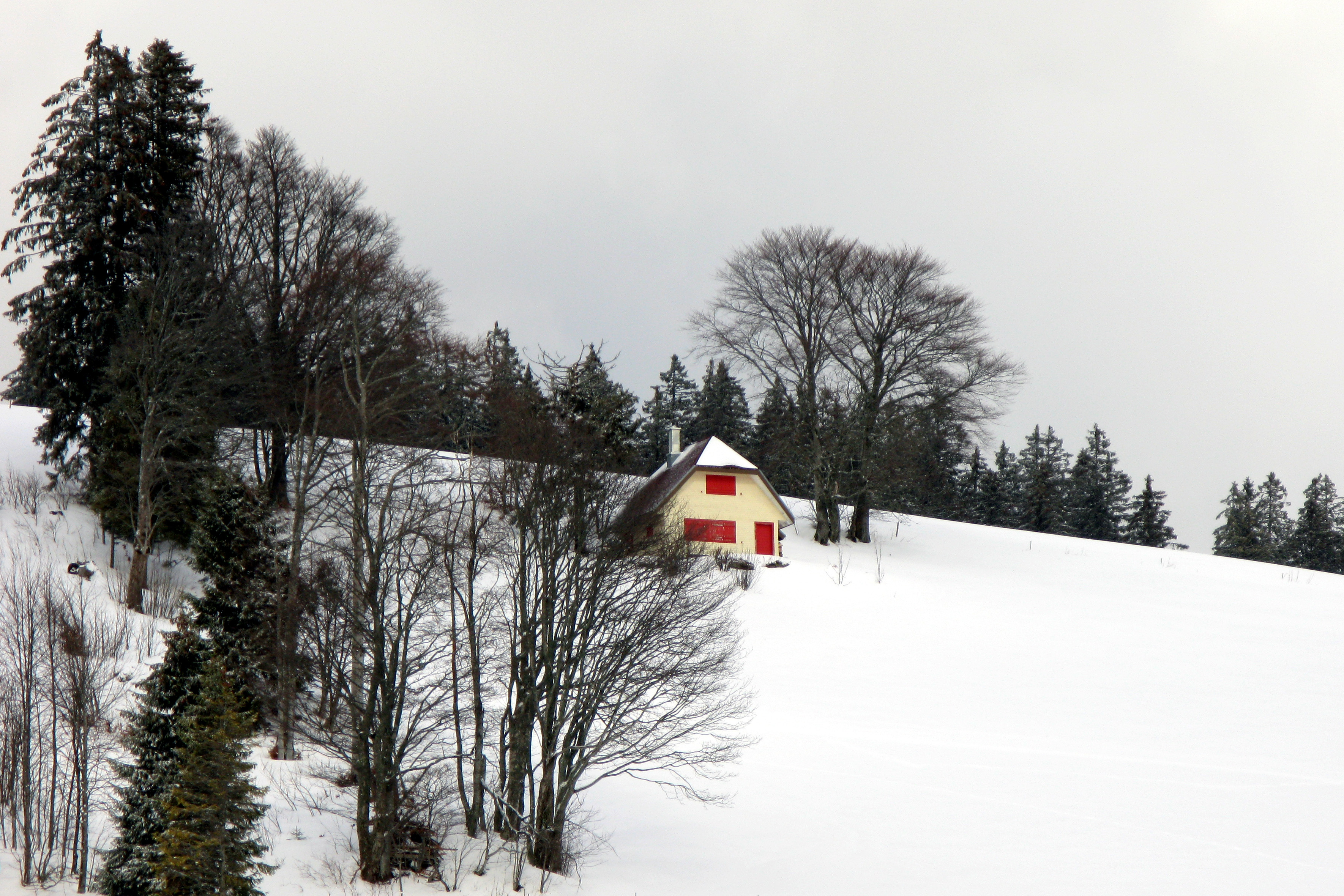 Todtnauberg